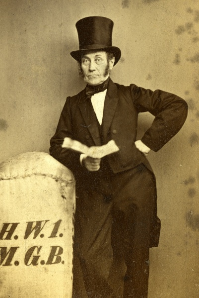 Marcus Galthen Bech, ca. 1860